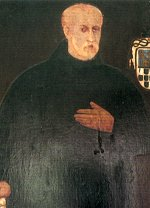 Aleixo de Menezes, Archbishop of Goa, Archbishop of Braga, Spanish Viceroy of Portugal